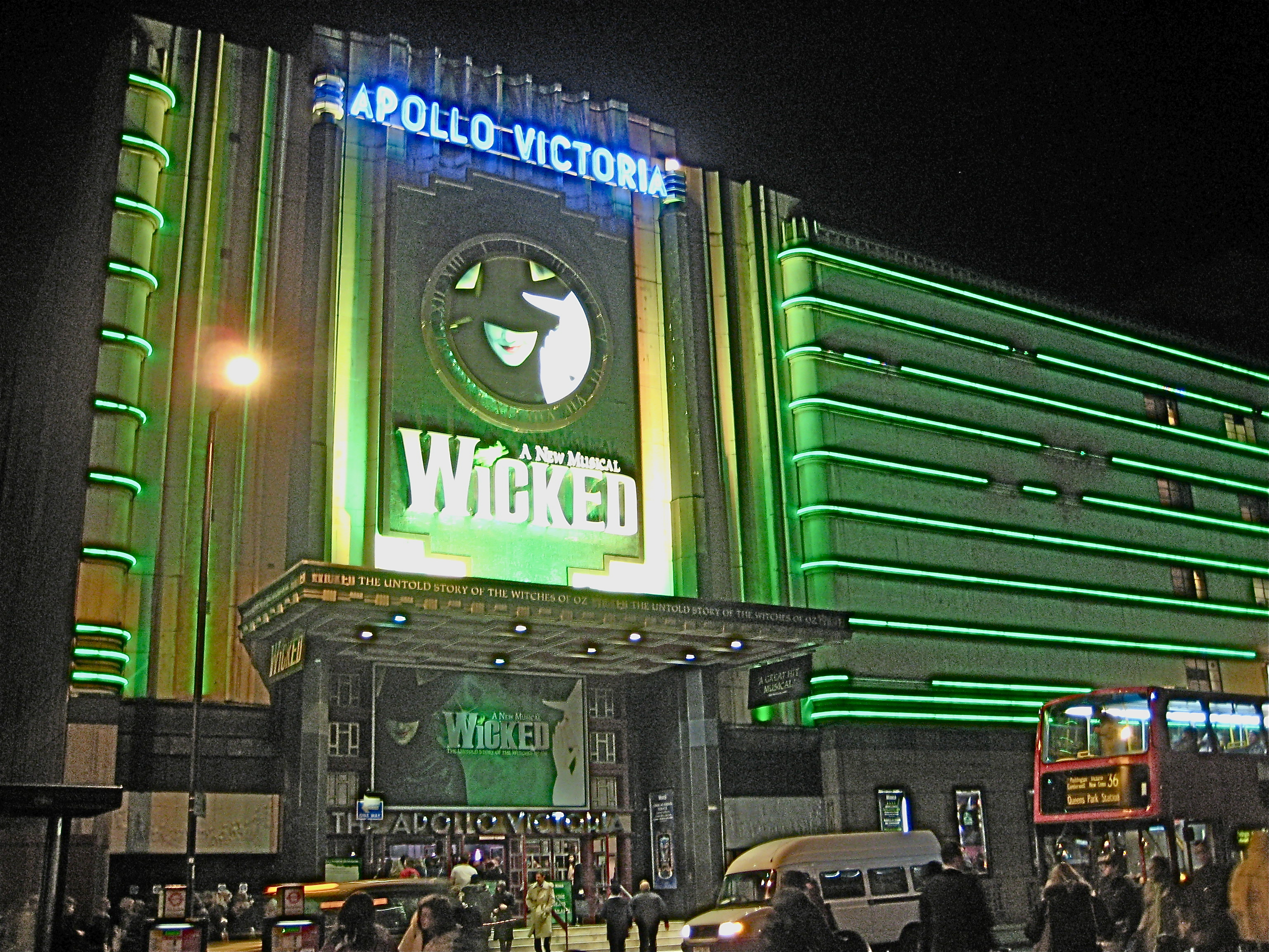 Apollo Victoria Theatre, London, 2007